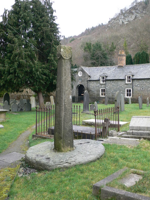 Stone cross in the parish churchyard of SS Mael and Sulien, Corwen, Denbighshire